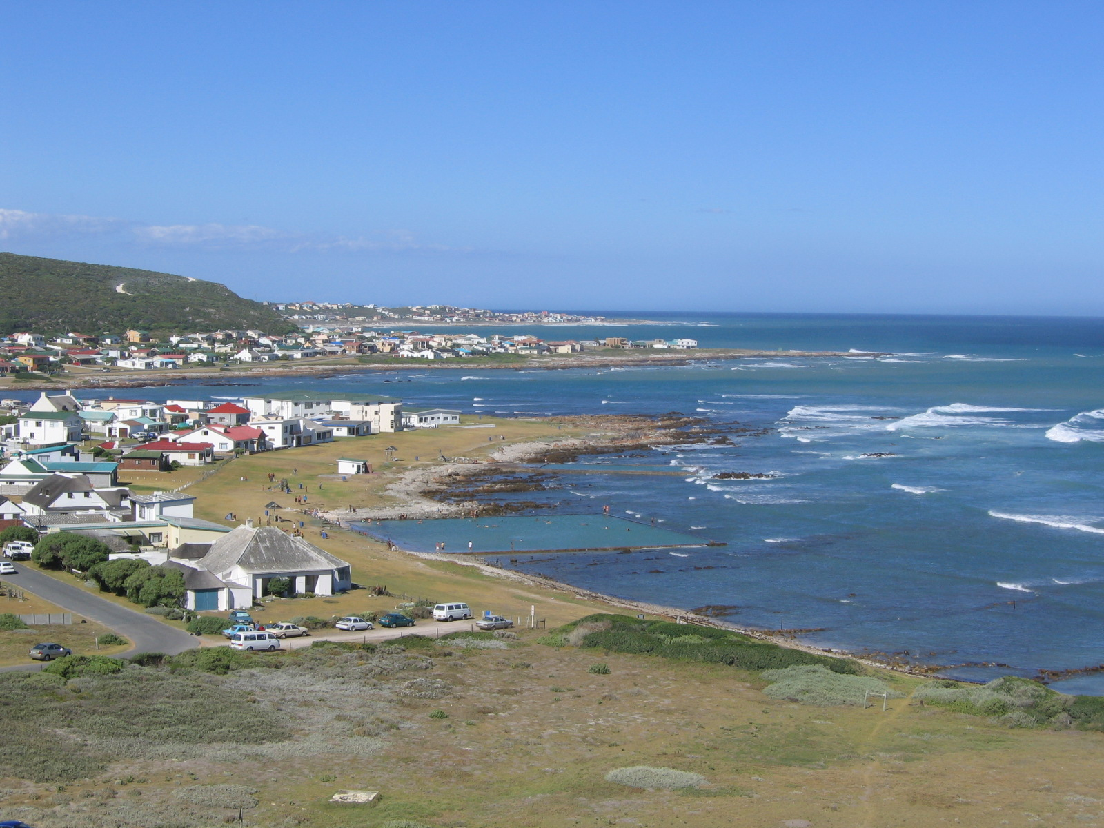 The town of L'Agulhas, next to Cape Agulhas, the most southern point of Africa. Taken from the lighthouse.